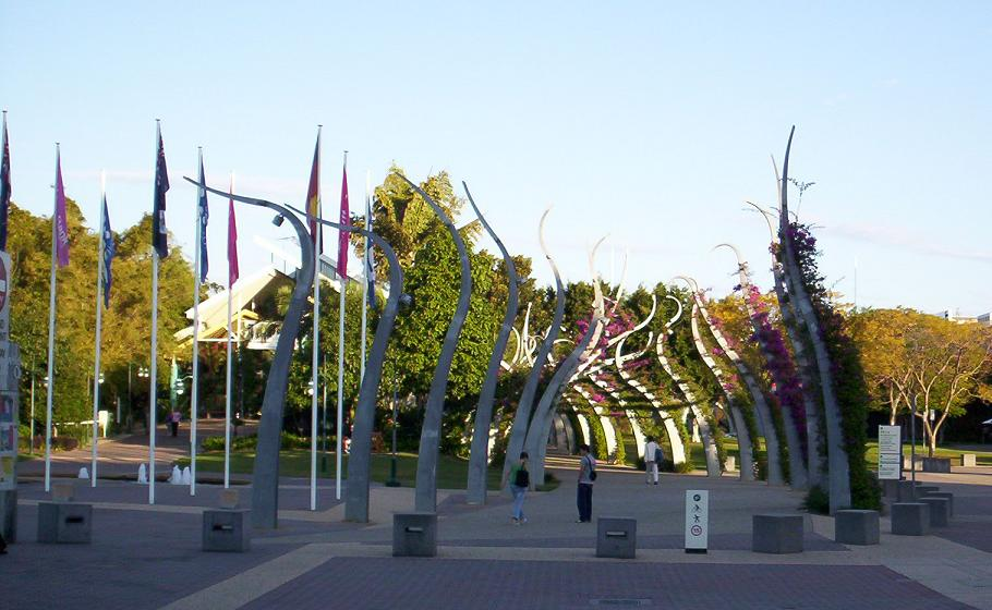 South Bank Parklands Arbour ( this photograph was taken by Figaro )